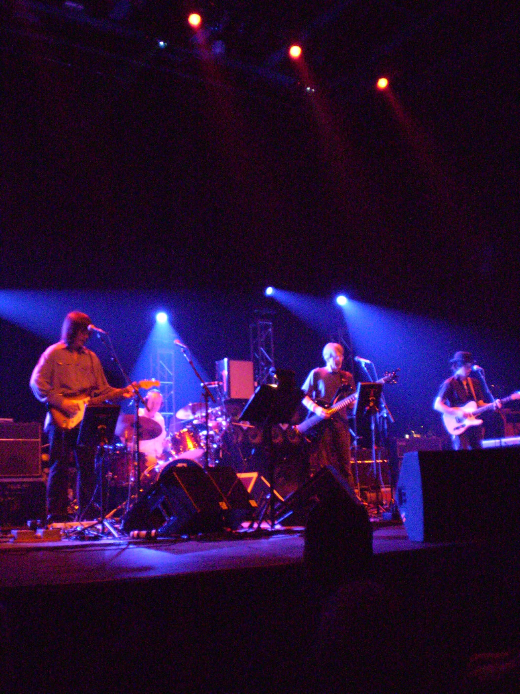 Phil Lesh and Friends at the Pageant July 3, 2009